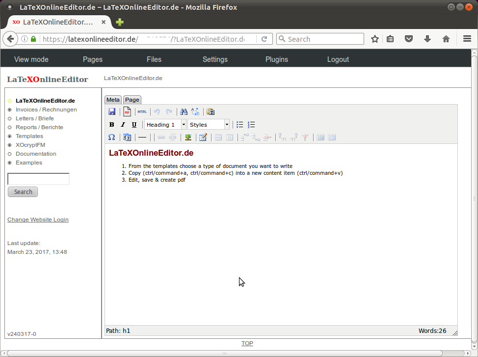 Screenshot of LaTeXOnlineEditor (available in German at and in English at )